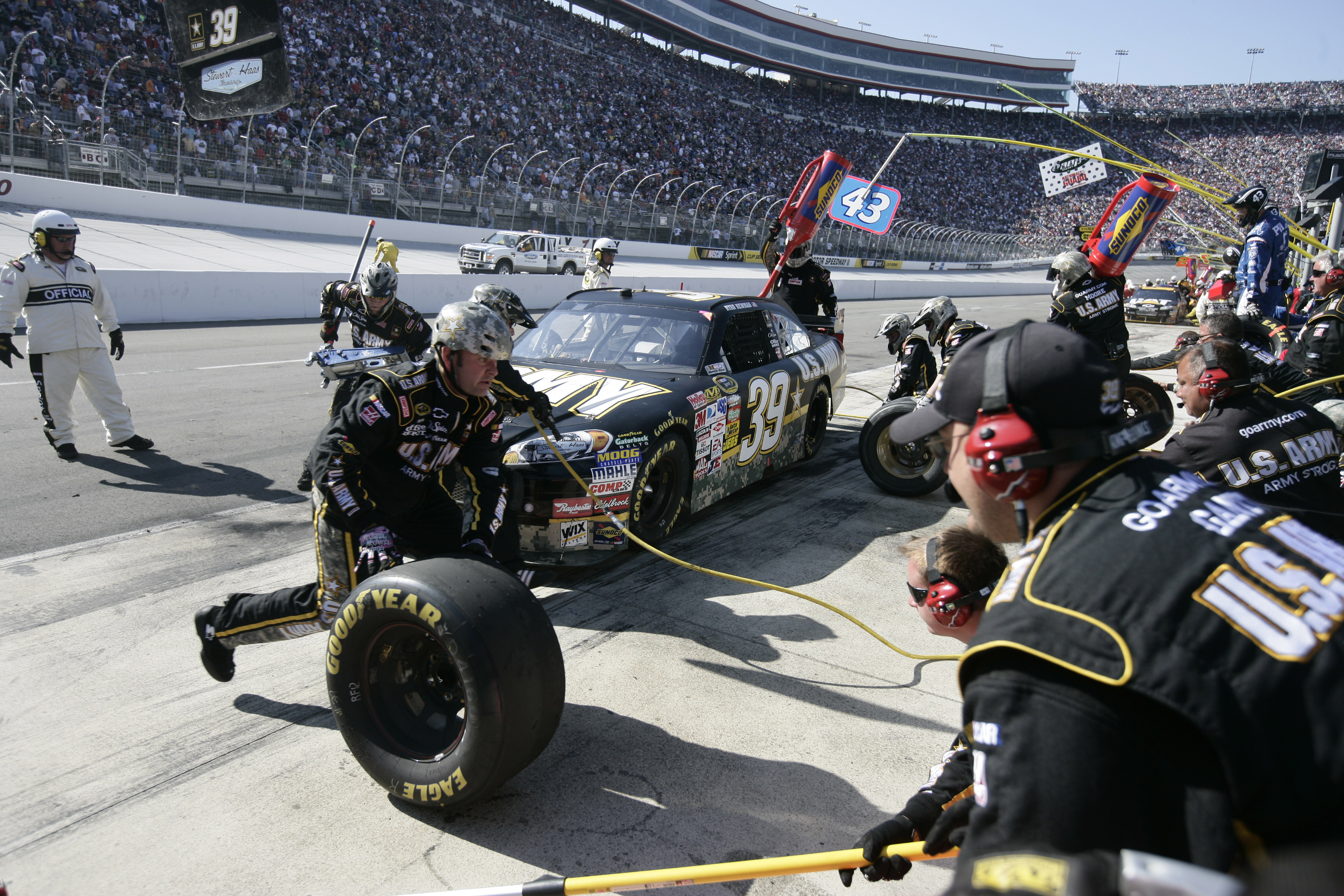 Stewart-Haas pit crew working on car #39 of Ryan Newman at the 2009 Food City 500 on Bristol Motor Speedway.